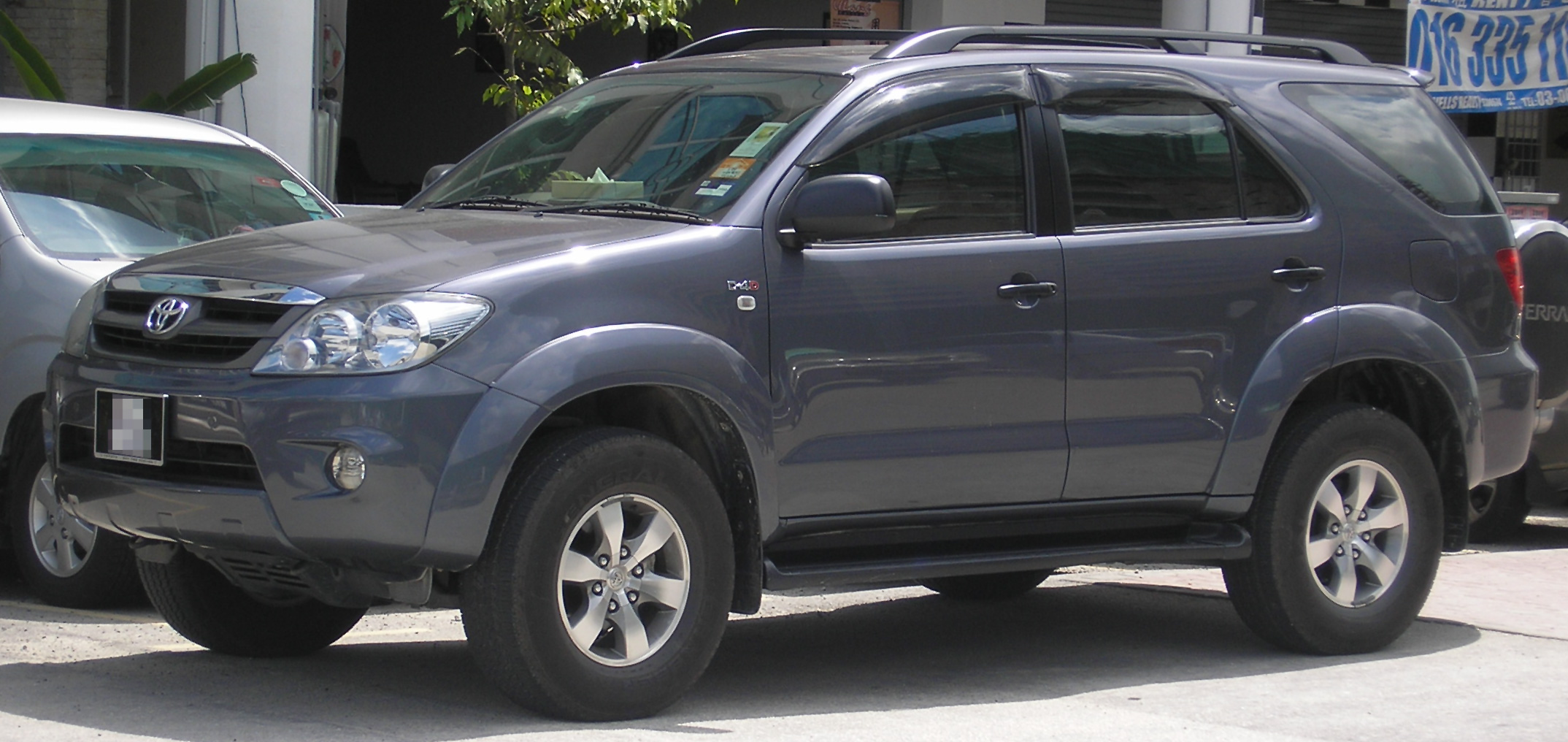 Front quarter view of a first generation Toyota Fortuner, in Serdang, Selangor, Malaysia.